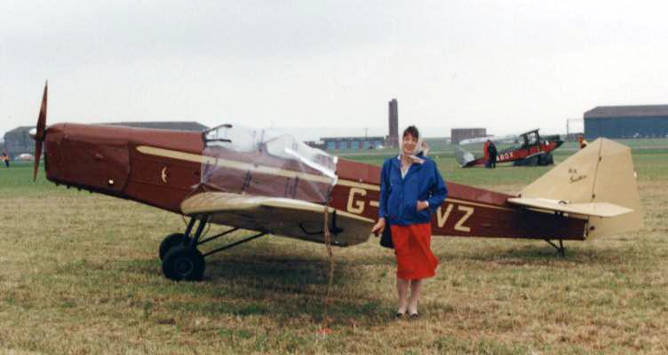 British Aircraft Swallow II G-AEVZ at Wroughton